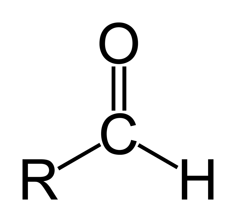 Description: Structural formula of a general aldehyde group (RCHO). Author, date of creation: self made by Ben Mills at 16:52, 8 March 2006 (UTC). Source: user-created image Comments: high-resolution black and white PNG; ChemDraw / Photoshop.